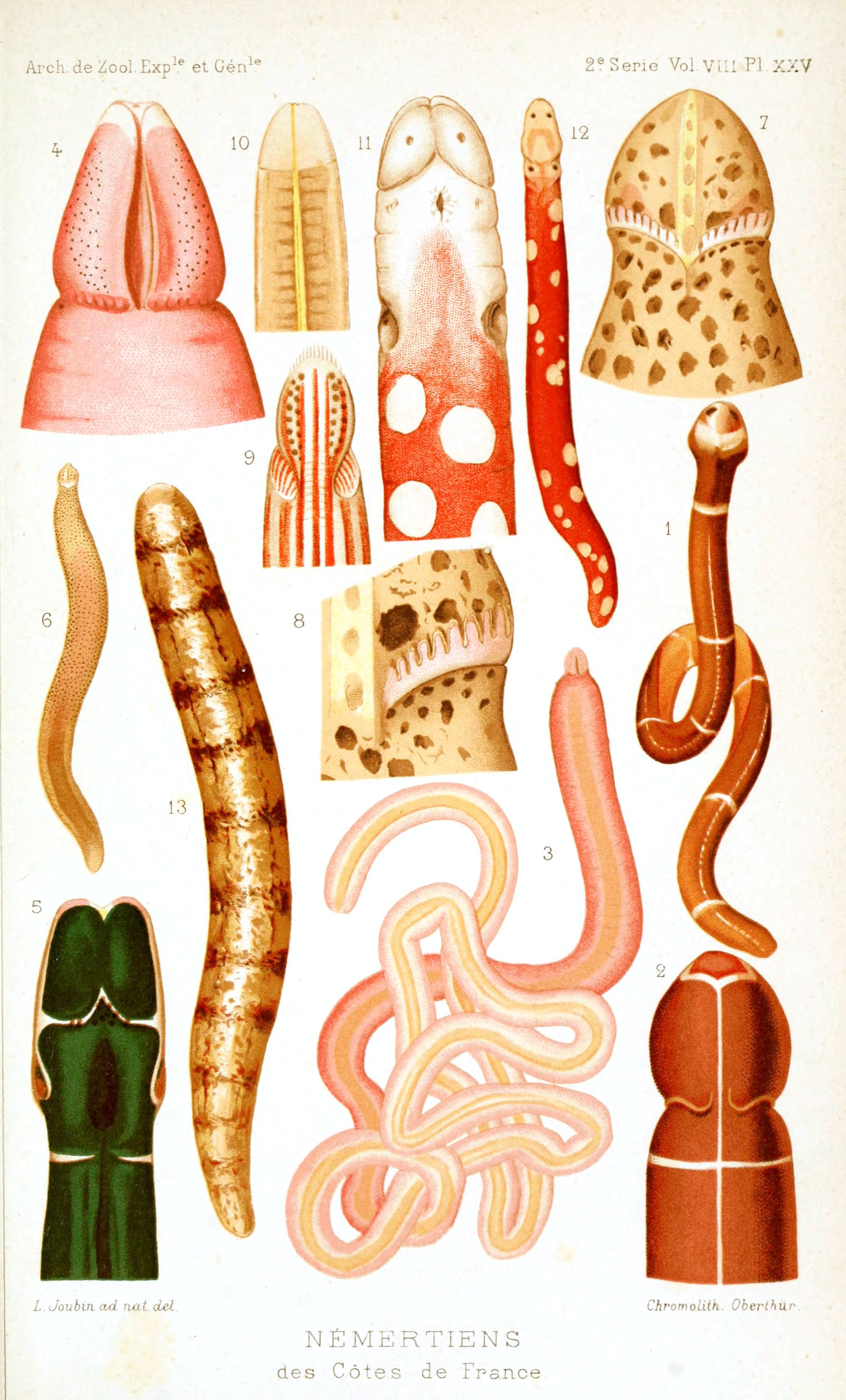 Drawing of ribbon worms: 1 – Carinella bayulensis (=Tubulanus banyulensis) 2 – Carinella aragoi (=Tubulanus annulatus) 3–4 – Poliopsis lacazei 5 – Cerebratulus geniculatus (=Notospermus geniculatus) 6–8 – Amphiporus marmoratus (=Amphiporus arcticus; Note: Amphiporus marmoratus is a valid species, but Joubin's description has been synonymised with Amphiporus arcticus) 9 – Drepanophorus rubrostriatus (=Brinkmannia mediterranea; Note: Drepanophorus rubrostriatus is a valid species, but Joubin's description has been synonymised with Brinkmannia mediterranea) 10 – Nemertes duoni (=Emplectonema duoni) 11–12 – Tetrastemma rustica (=Oerstedia rustica) 13 – Tetrastemma dorsalis (=Oerstedia dorsalis).